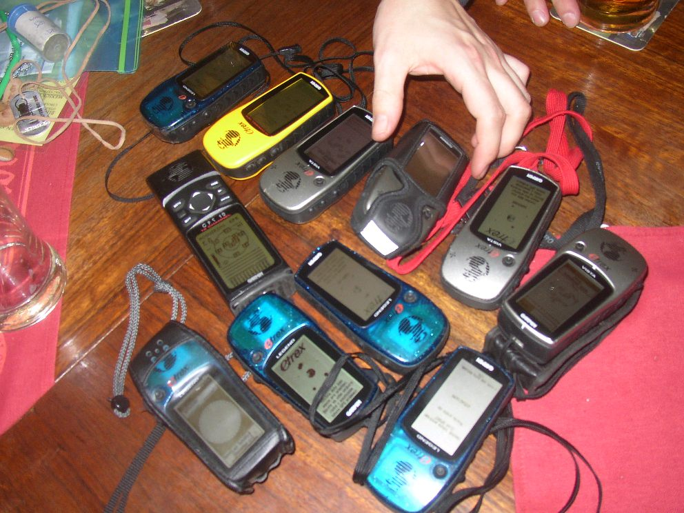 A sample of common GPS recievers for hiking (all Garmin) photo taken by Miaow Miaow in December 2004